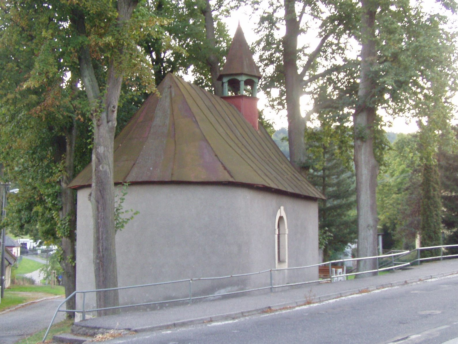 Chapel of Saint John of Nepomuk (Lipnice)